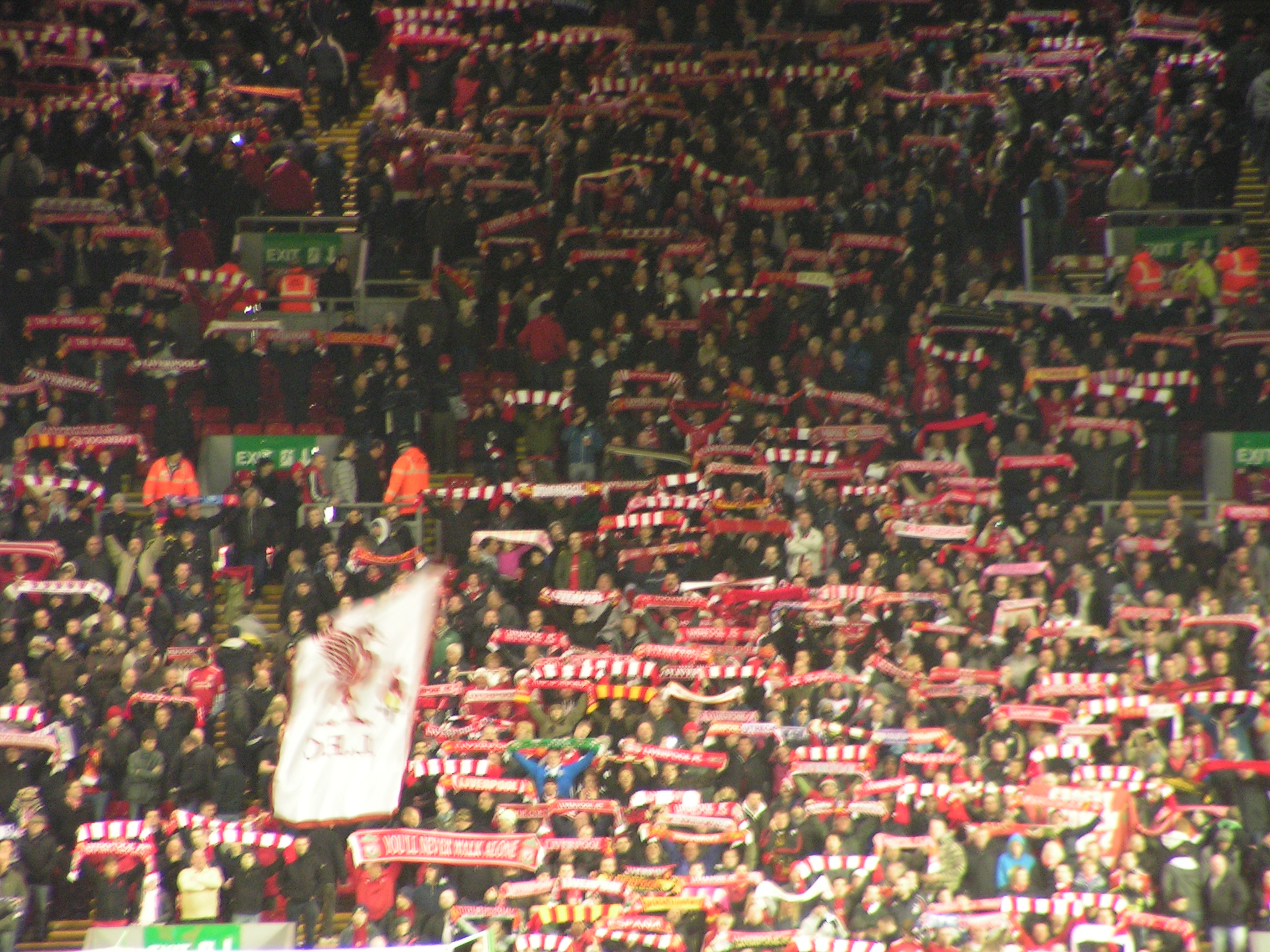 You'll Never Walk Alone! op Anfield